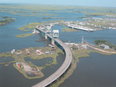 Lift bridge over Bayou LaFourche, at Leeville, Louisiana, on former alignment of Louisiana Highway 1. View is looking northwest. A new section of LA 1 opened here in July 2009, on a different alignment, and includes a fixed-span bridge. The 1970-built lift bridge was subsequently dismantled. Of the highway sections that led to the lift bridge, the one to the north dead-ends at the water, and that to the south (foreground of this view) has been removed entirely. (Note: Bridge was not located at Grand Isle, LA, and view is looking away from Grand Isle.)